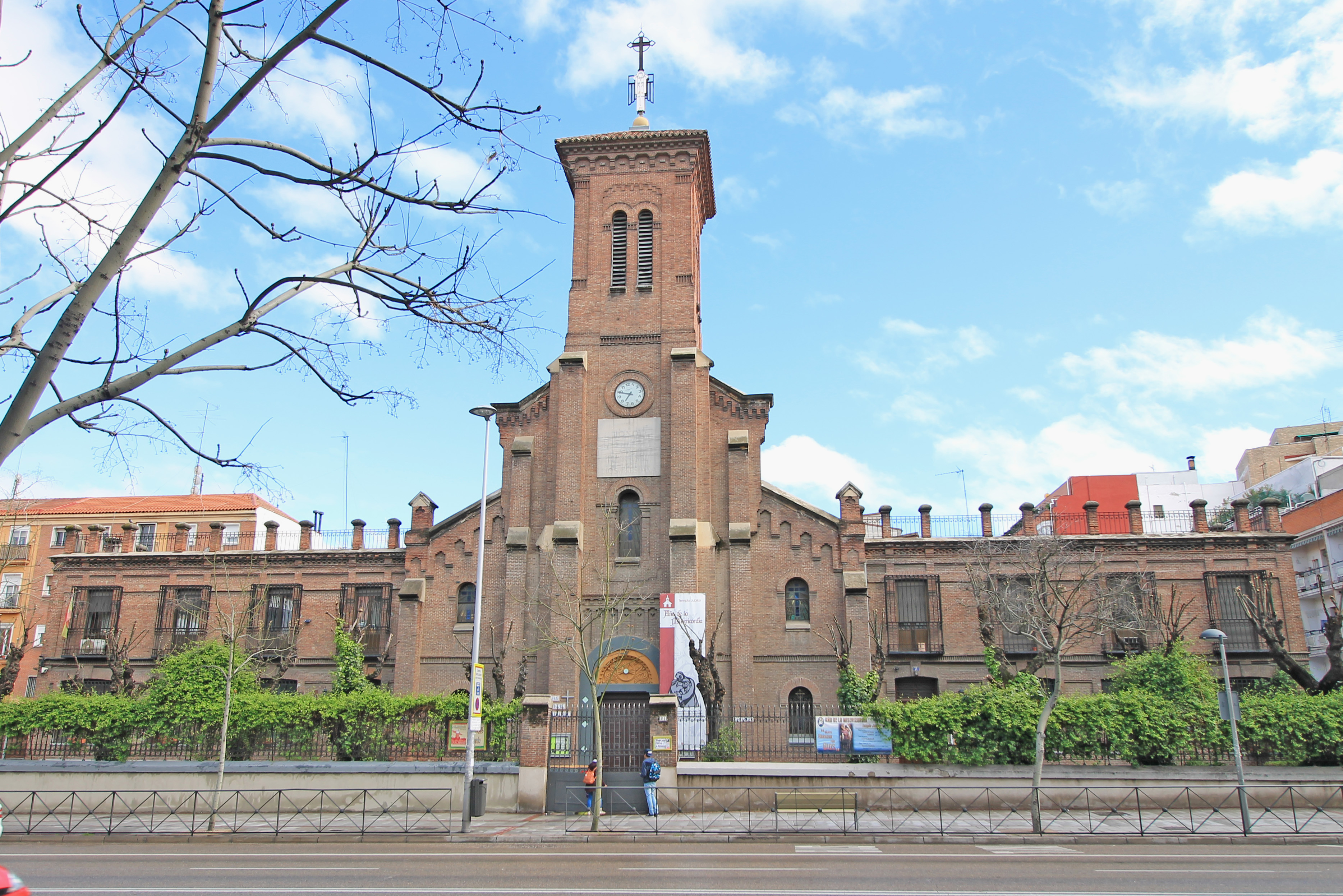 Façade of Archangel Michael's Church in Madrid (Spain).